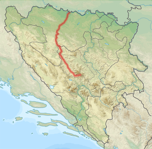 Vrbas river, in Bosnia and Herzegovina, highlighted on relief map (from File:Relief Map of Bosnia and Herzegovina.svg)